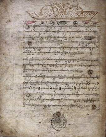 A treatise on Javanese calendars made in Yogyakarta and kartasura. Copied in Yogyakarta c. 1810.